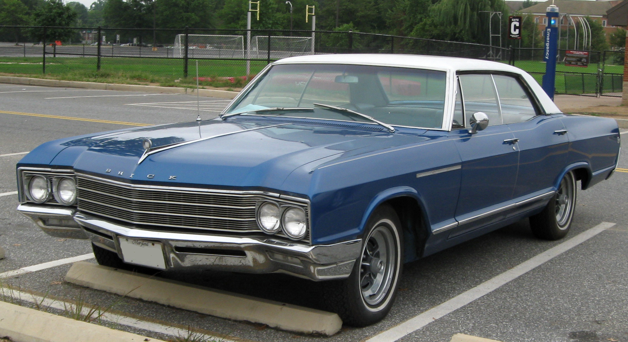 1966 Buick LeSabre 4-Door Hardtop photographed in College Park, Maryland, USA.